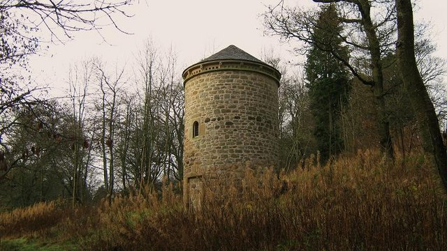 Dovecote near Cumbernauld House "The doocot, a B listed building where once doves were reared for the table of local lairds the Fleming family. The restoration was undertaken by the Scottish Lime Centre Trust masonry training squad, who replaced modern cement with material closer to the kind used in the 17th century, the dovecot should remain in prime condition for decades to come." (Info from Cumbernauld House Park website).